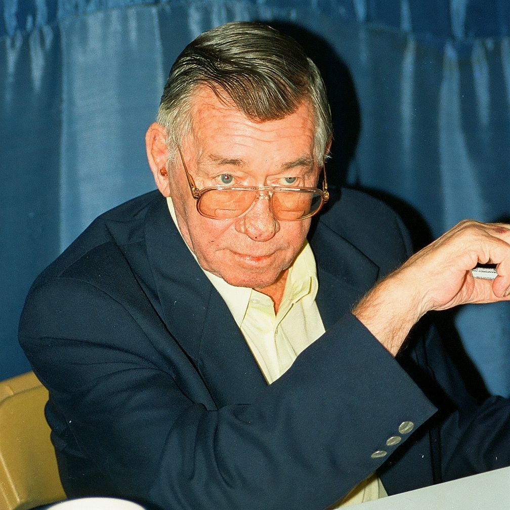 October 1, 1995 Baltimore M.D. Hall of fame Baseball player